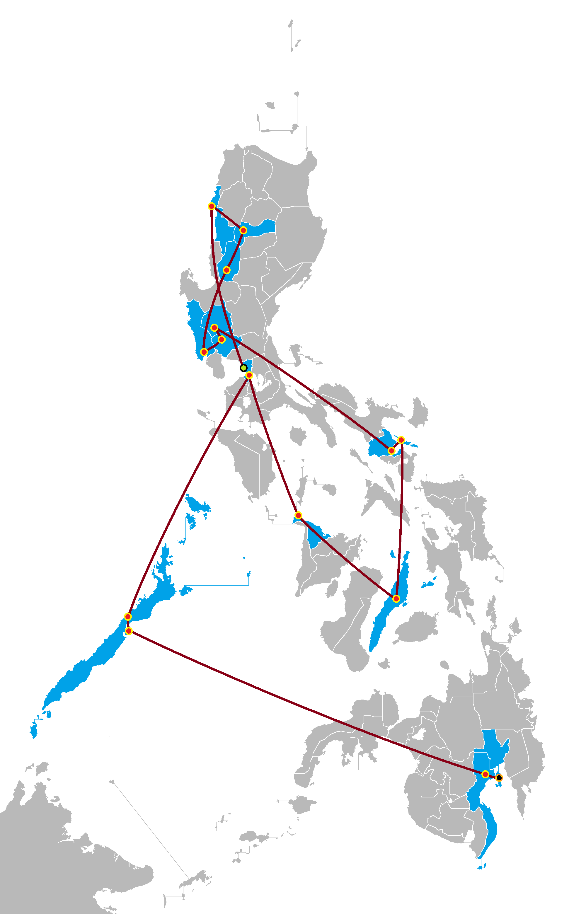 A Philippine map showing provinces visited by The Amazing Race Philippines. The map is based from TheCoffee's Blank map of the Philippines which was released to public domain.